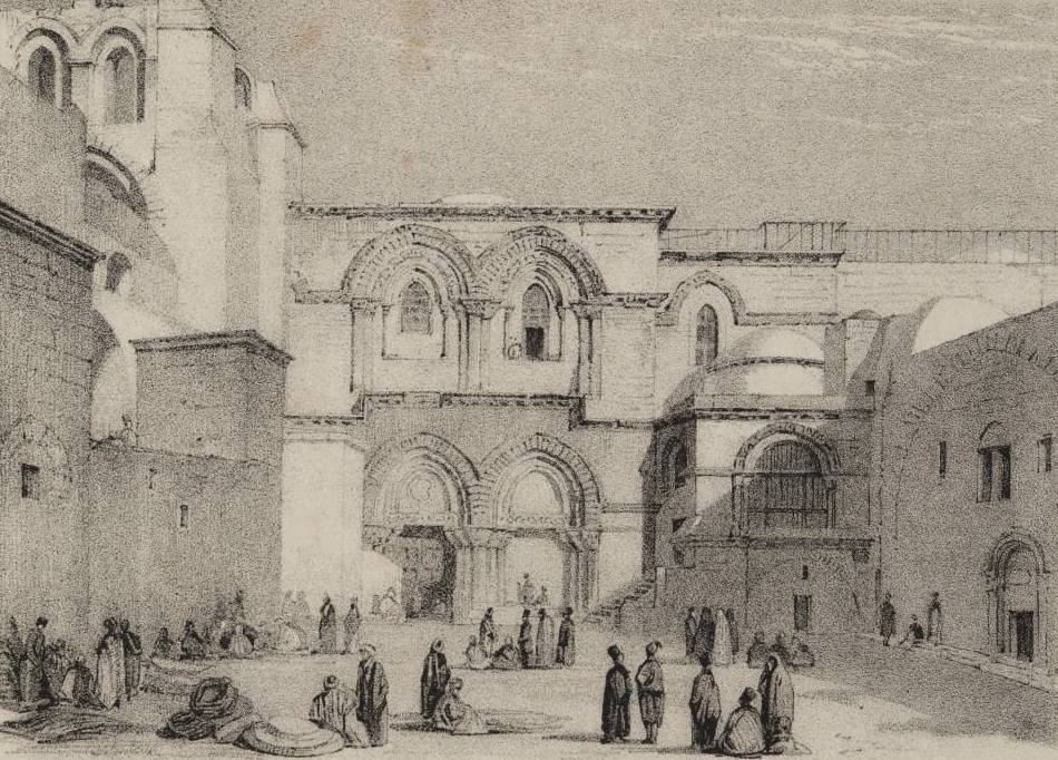 EXTERIOR OF THE HOLY SEPULCHRE. The exterior of a large building, with many groups of people milling outside.